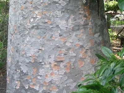 Bark of Agathis robusta {South Queensland Kauri} at Melbourne Royal Botanic Gardens (leaves belong to another plant).